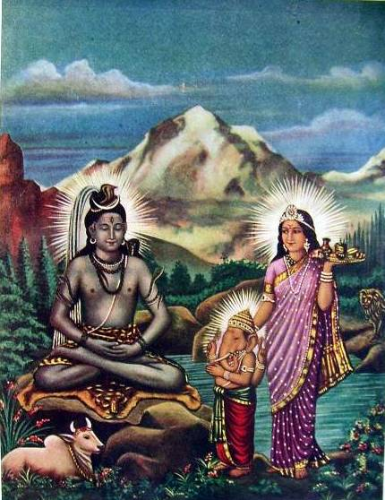 Parvati and Ganesh visit Shiva as he meditates in the forest; bazaar art, c.1940's